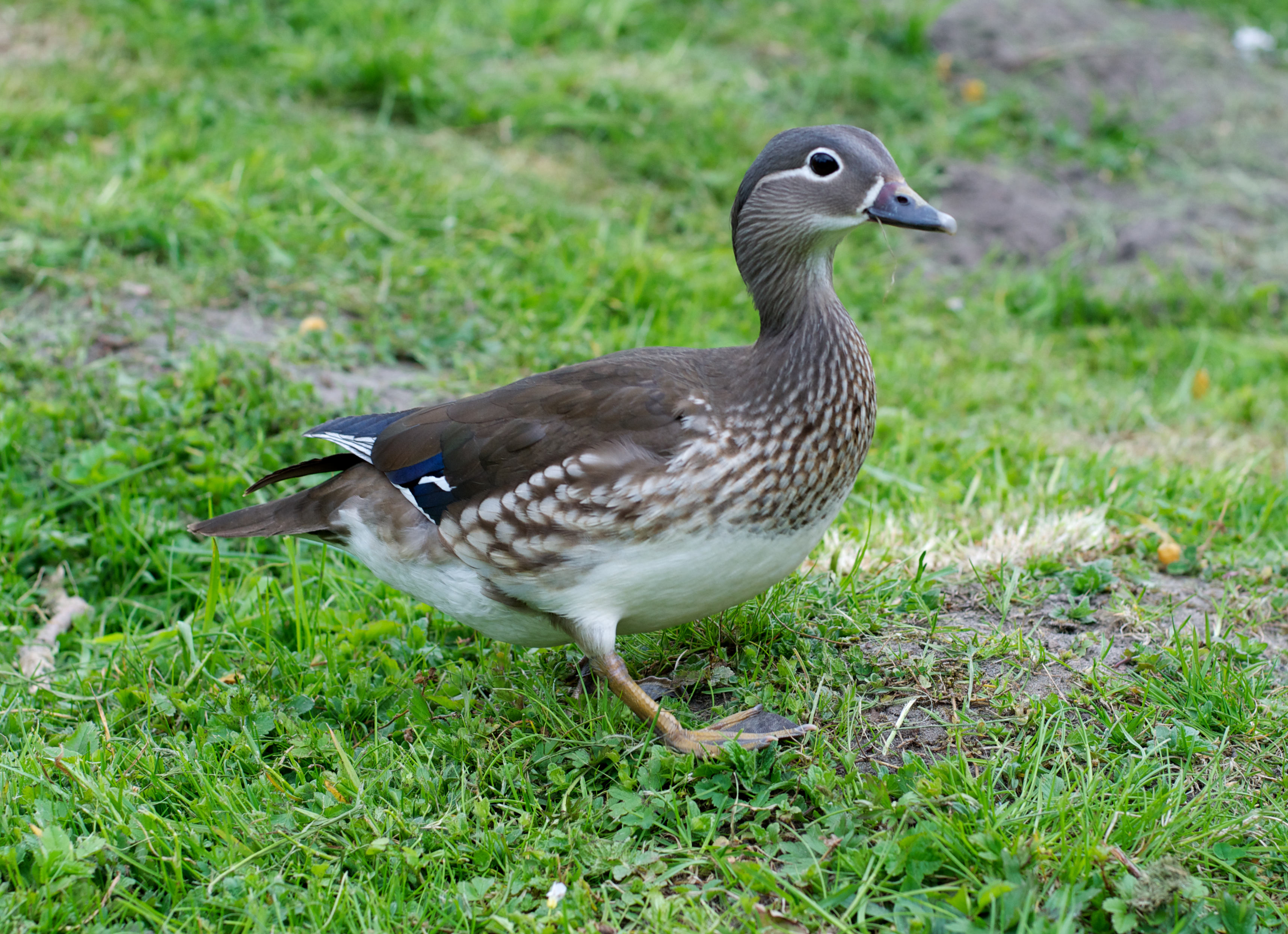 A female mandarin duck on grass.